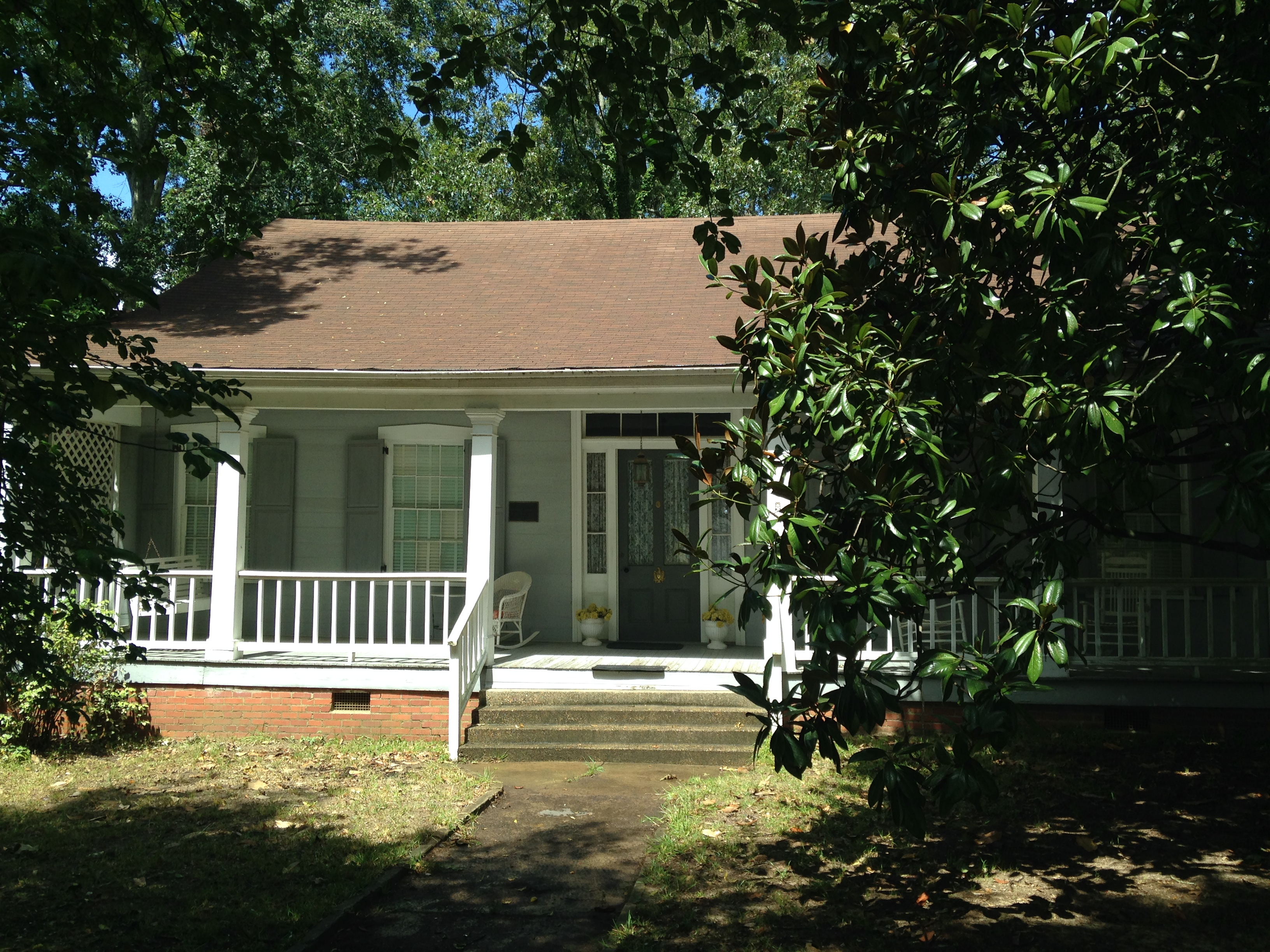 The Cedars